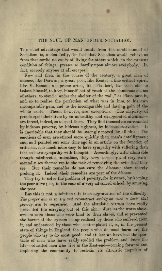 Oscar Wilde: The Soul of Man under Socialism. First page of the first publication in Fortnightly Review old series 55, new series 49 (February 1891), pp. 292–319